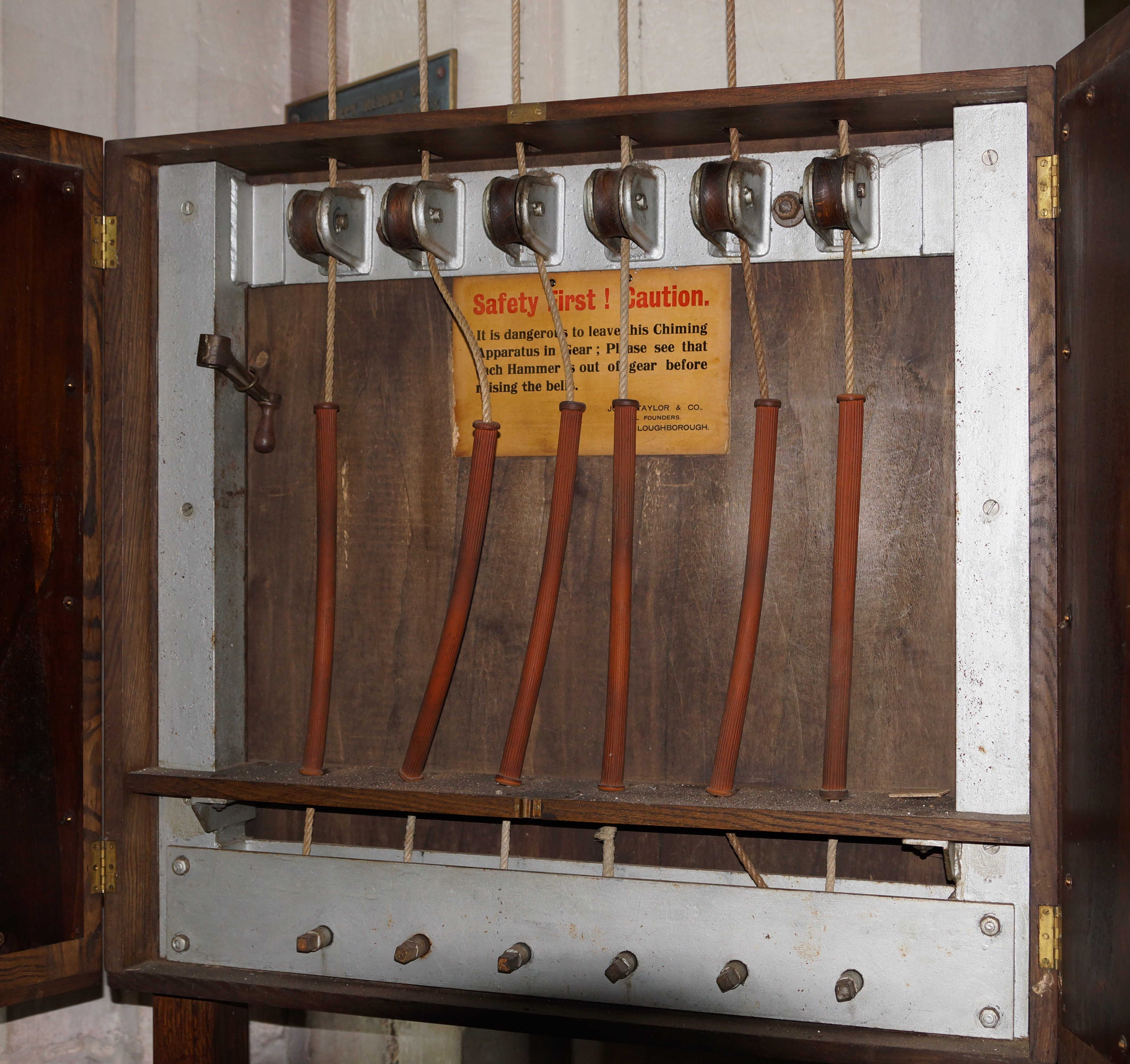 An Ellacombe apparatus to allow one person to sound church bells. Each rope is connected to a hammer to strike a different bell. One person is able to "ring" all the bells.